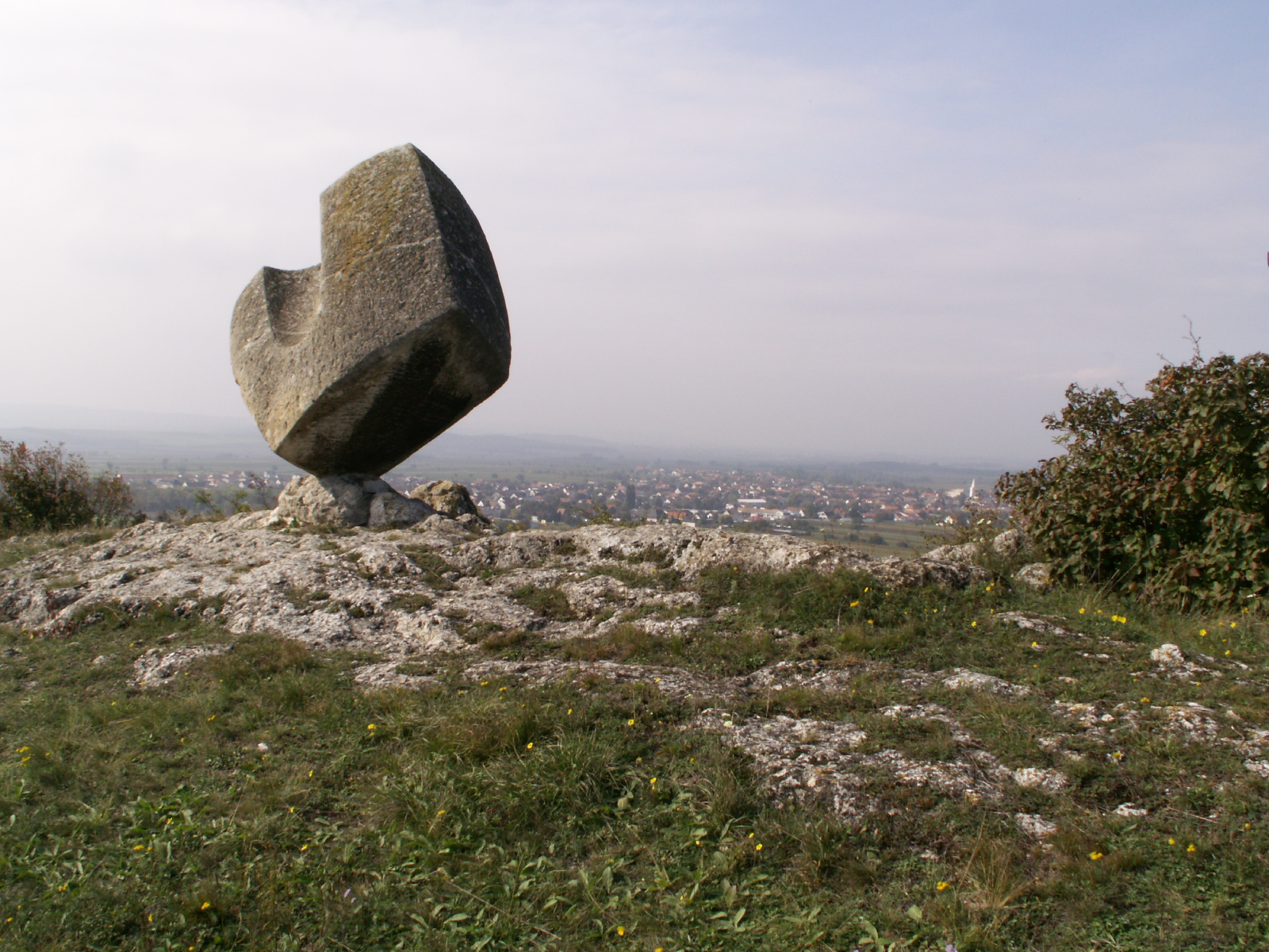 „Symposion Europäischer Bildhauer“, St.Margarethen – Burgenland/Austria, Minoru Niizuma, 1969